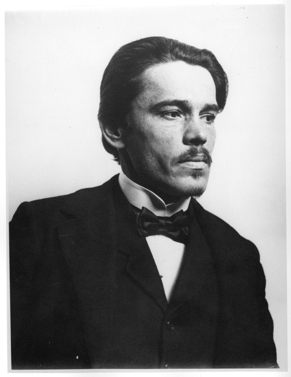 Aleš Hrdlička (1869-1943), as a young man. Hrdlička was a curator at the United States National Museum, now the National Museum of Natural History from 1904 to 1941. A Czech native, Hrdlička traveled widely to collect skeletal remains and established the Smithsonian's world-renowned physical anthropology collections. In 1904, he came to head the newly created Division of Physical Anthropology (DPA) at the National Museum of Natural History, a position he held for the next forty years.